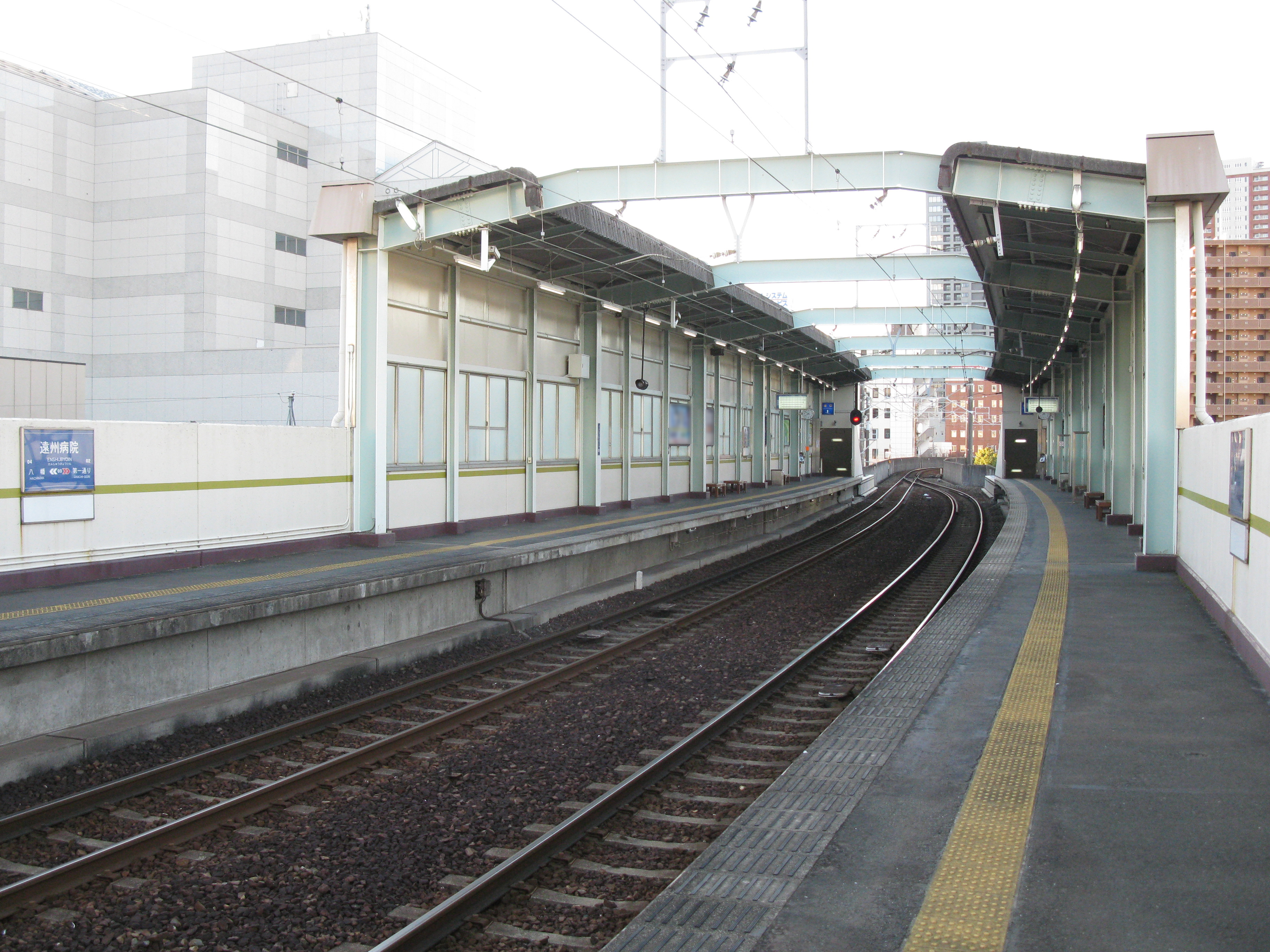 Enshū-Byōin Station platform (Enshū Railway Line)